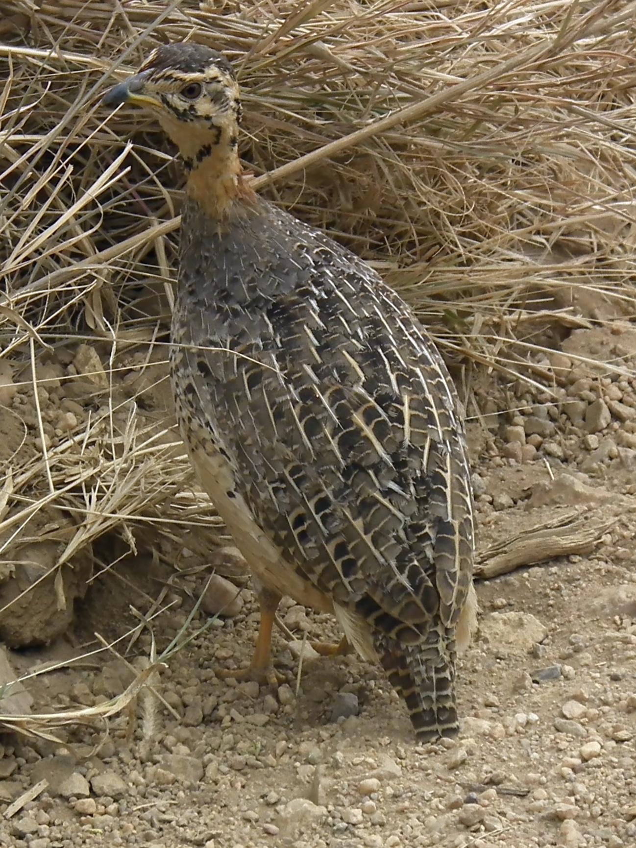 A female Coqui francolin of the pale-bellied race hubbardi, at Serengeti National Park, Tanzania